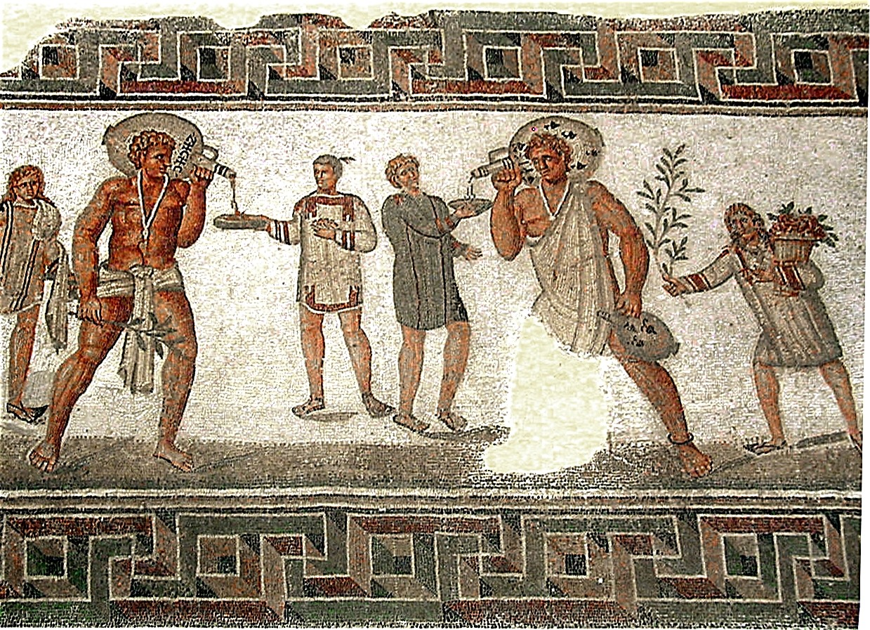 Mosaic of cupbears, 2nd century CE, from Dougga, at the National Museum of Bardo (Tunisia). It dates from the middle of the 3rd century and depicts a drinking scene: two figures serving drinks to two others, much smaller, from an amphora placed on their shoulders. On the two amphoras are inscribed the formulas PIE ("Drink!" in Latin) and ZHCHC ("You will live" in Greek). On the sides are two other characters bringing another amphora for one, a branch of laurel and a basket of roses for the other. This representation is a form of welcome for the guests and a promise of a good reception. The two slaves carrying wine jars wear typical slave clothing and an amulet against the evil eye on a necklace.